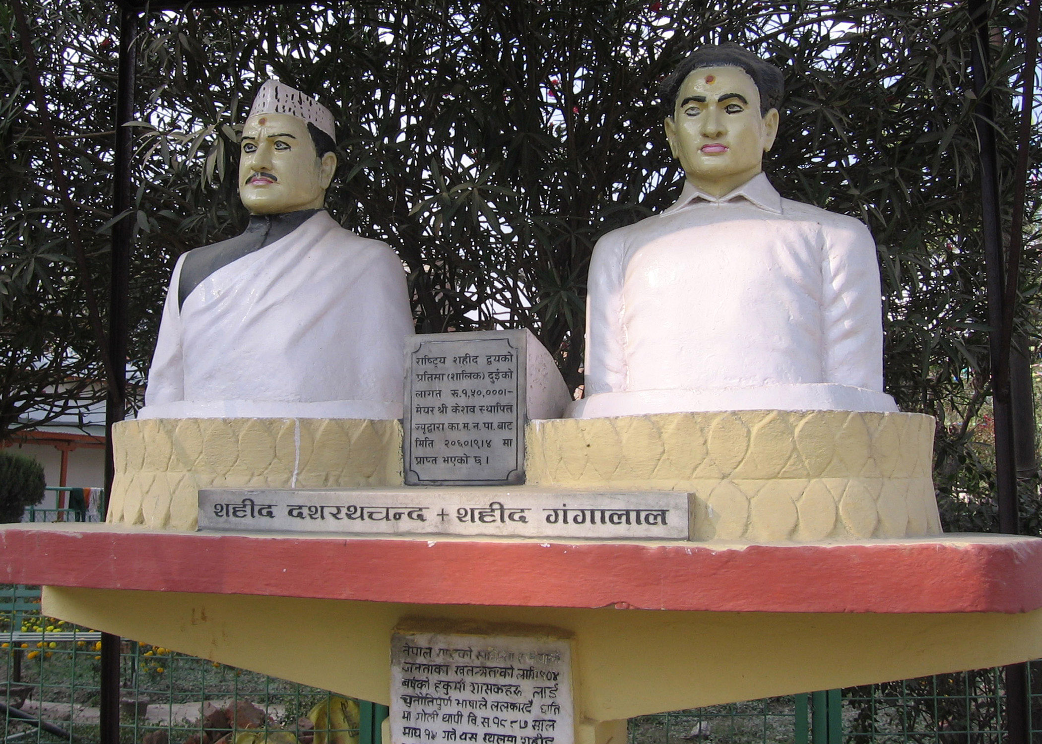 Statues of Nepalese martyrs Dashrath Chand (left) and Ganga Lal Shrestha on the banks of the Bishnumati River in Kathmandu where they were executed by firing squad in 1941.